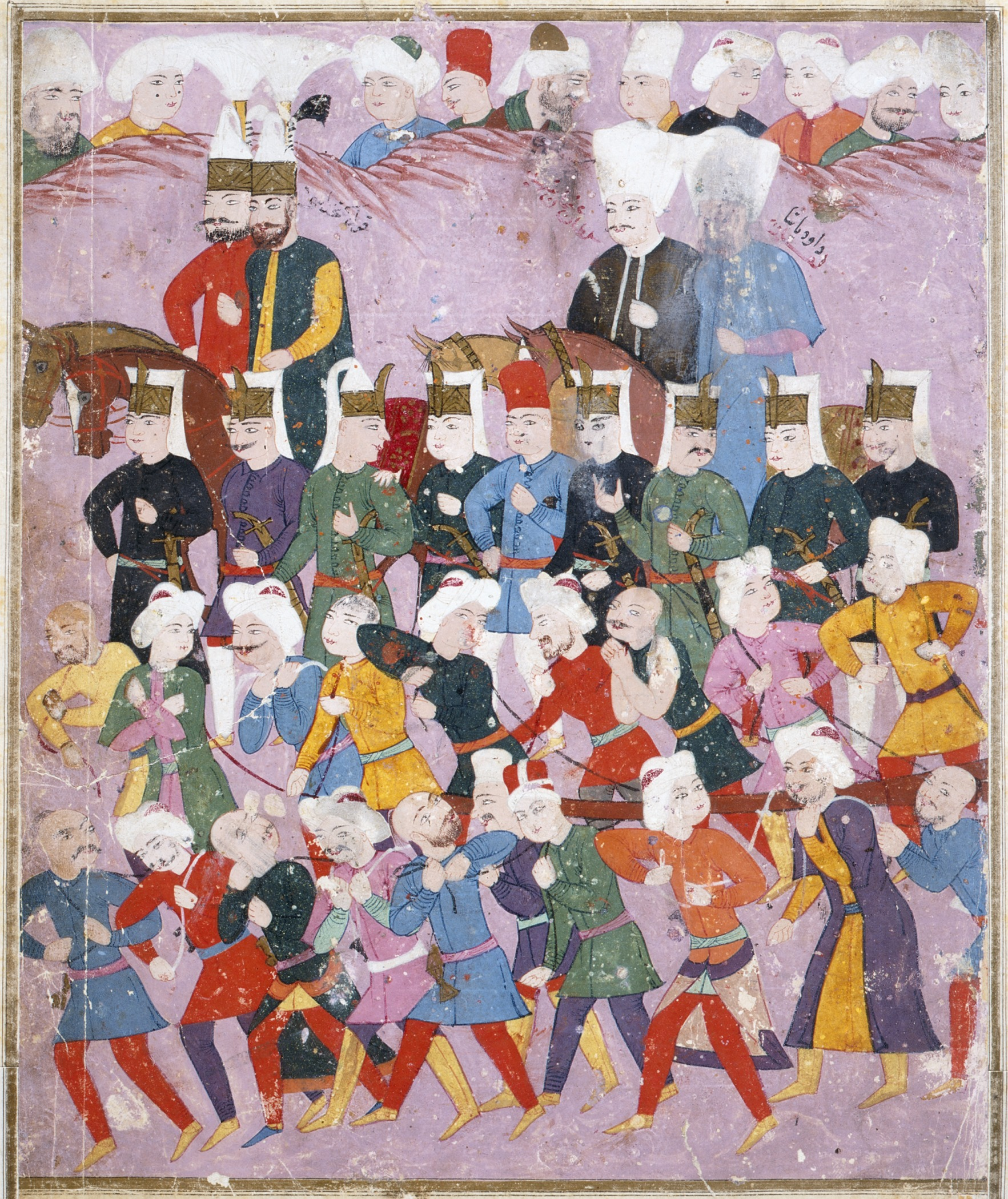 Turkey, circa 1620-22 Manuscripts Ink, opaque watercolor, and gold on paper The Edwin Binney, 3rd, Collection of Turkish Art at the Los Angeles County Museum of Art (M.85.237.42) Islamic Art